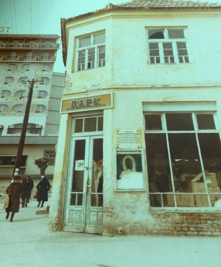 The building of the bakery company Blagoje Kostic Crni Marko